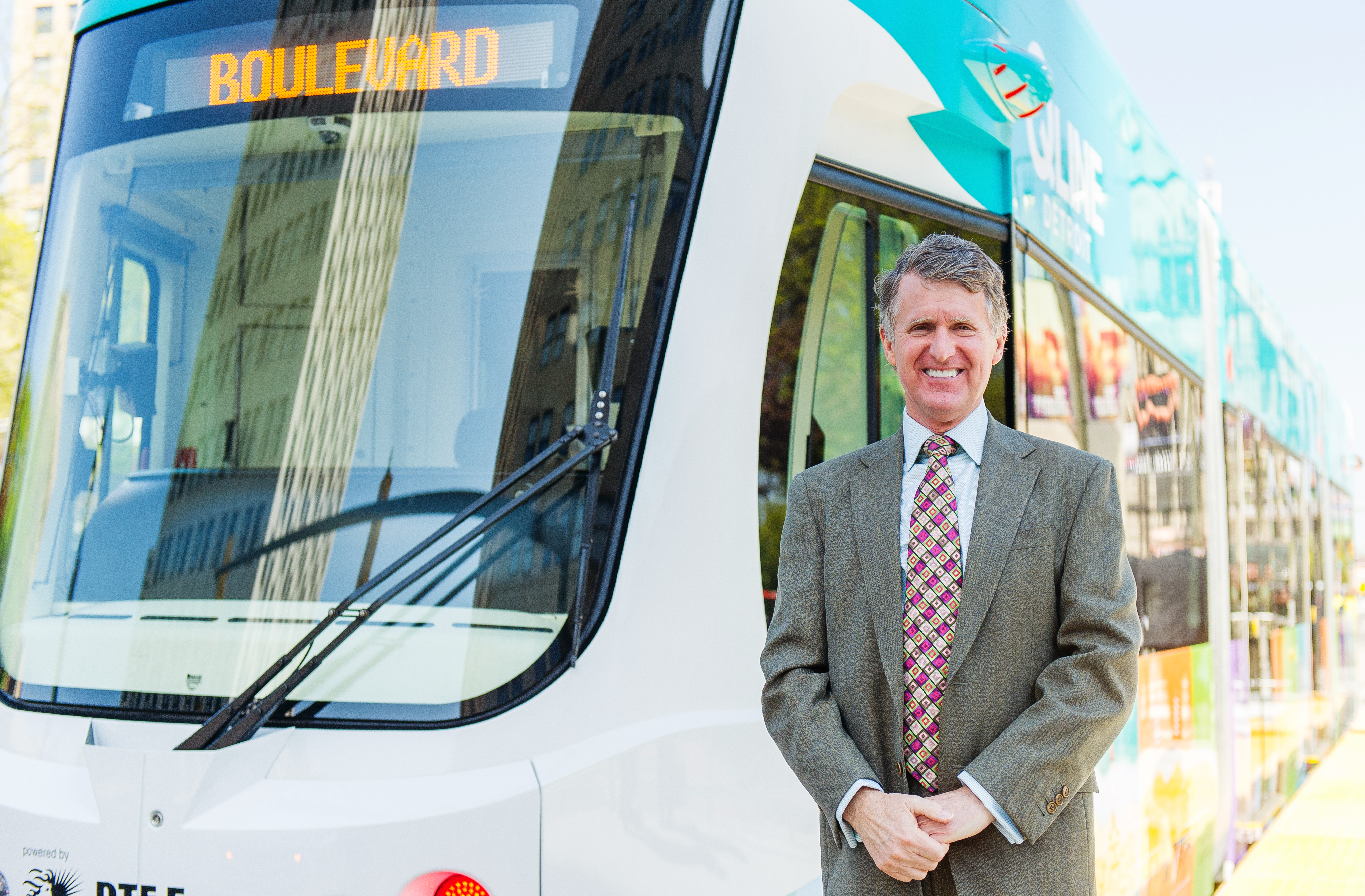 The Kresge Foundation President and CEO Rip Rapson at the grand opening of the Q-Line streetcar in Detroit, Michigan